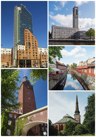 Photo montage of various famous landmarks in Västerås, Sweden.